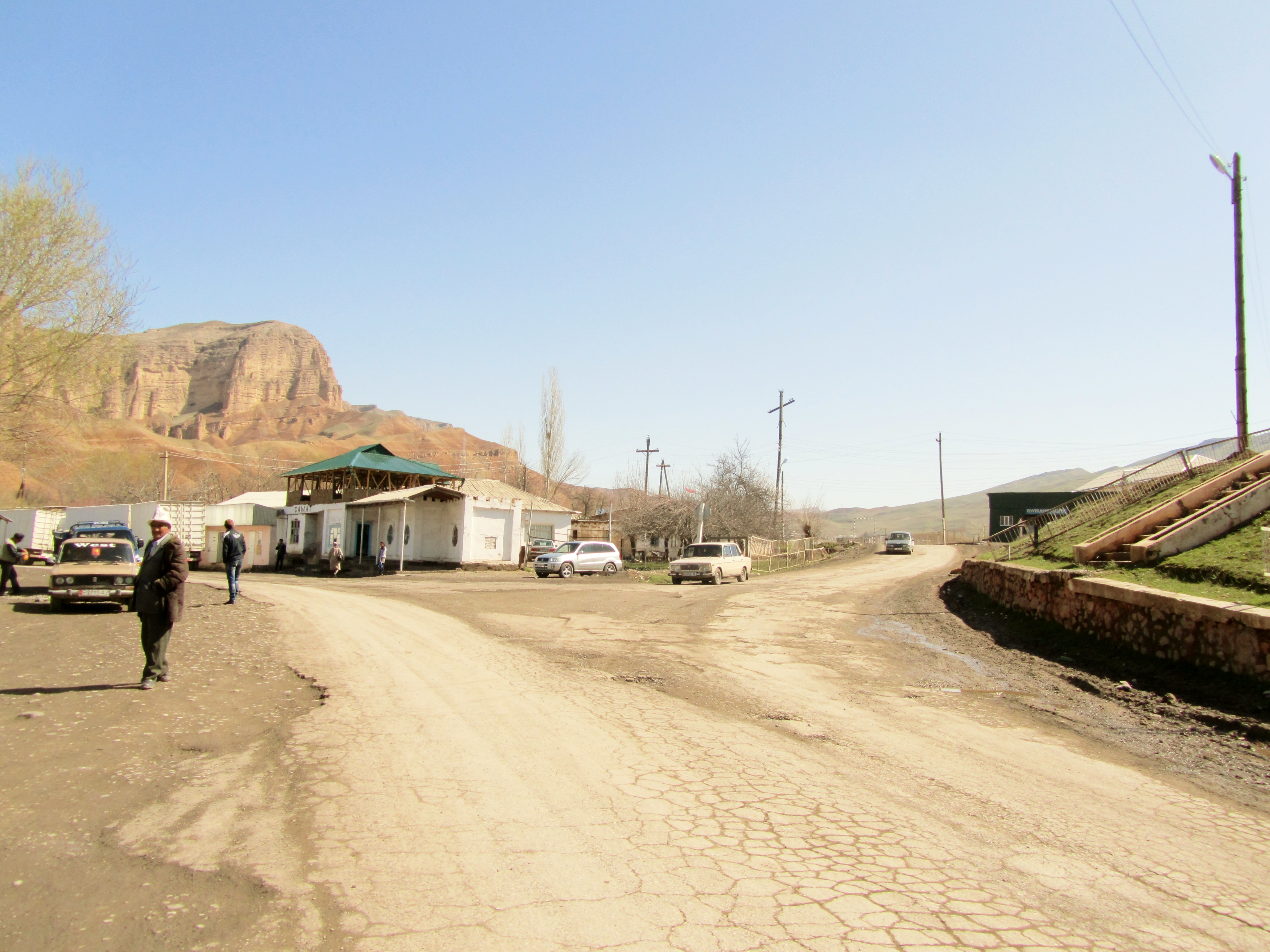 The main traffic junction in the village of Samat. Leilek District, Kyrgyzstan.